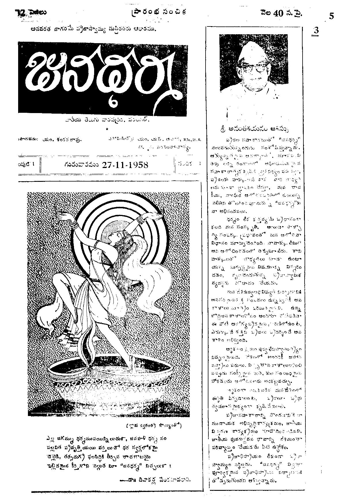 This is the first page of Janadharma Weekly News Paper of Inaugaral issue.